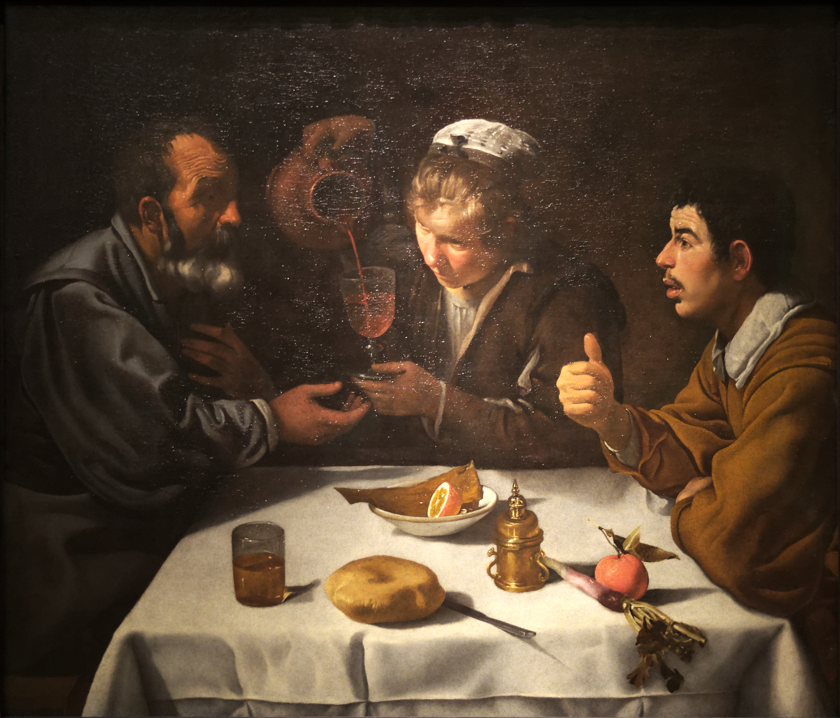 Tavern Scene with Two Men and a Girl (The Luncheon), oil on canvas, 96 x 112 cm., Museum of Fine Arts in Budapest